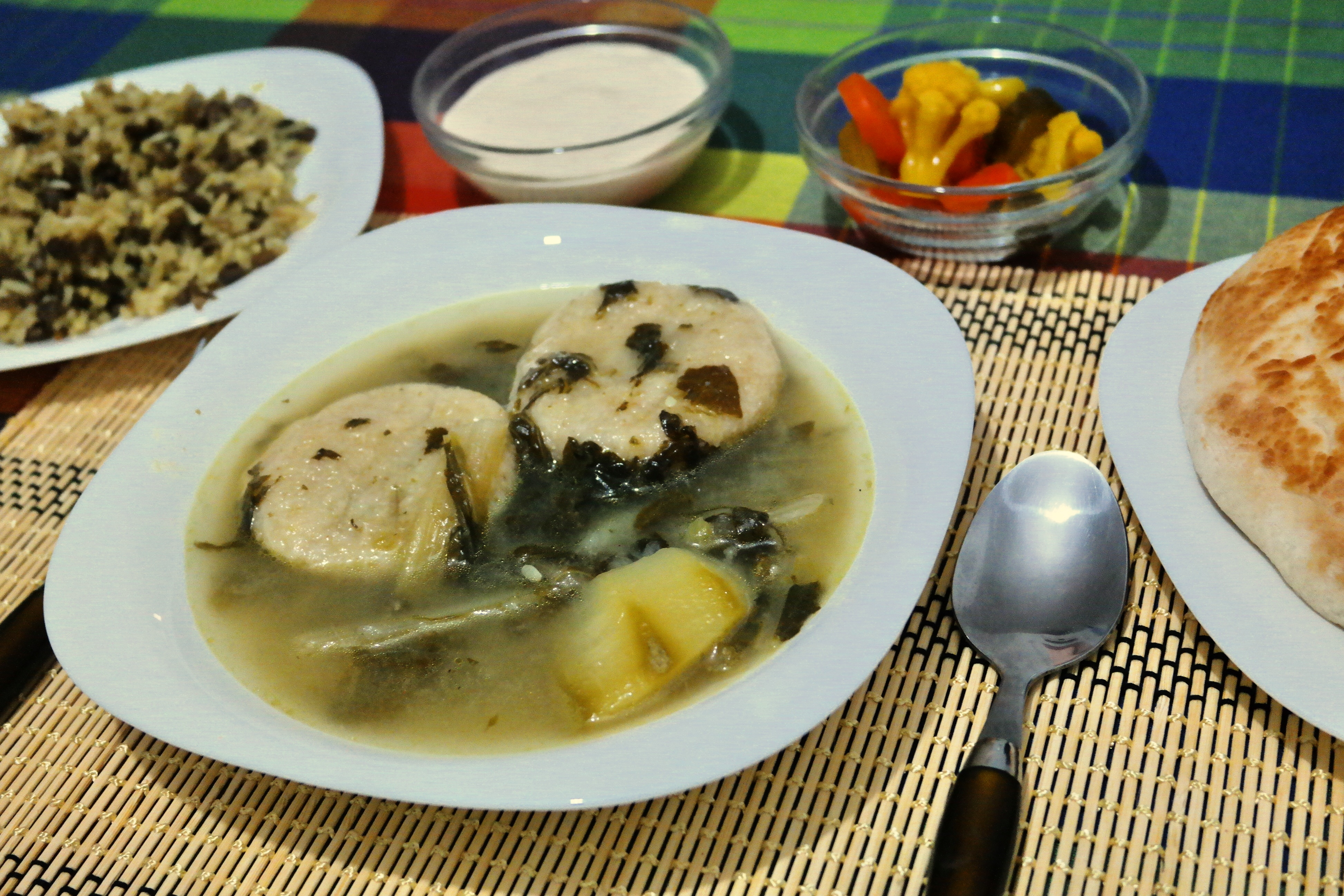 Kubbeh Hamusta soup with Mujaddara, Flatbread, Pickles and Tahini. Usually eaten on Fridays by Kurdish and Iraqi Jews, especially in Autumn and Winter.